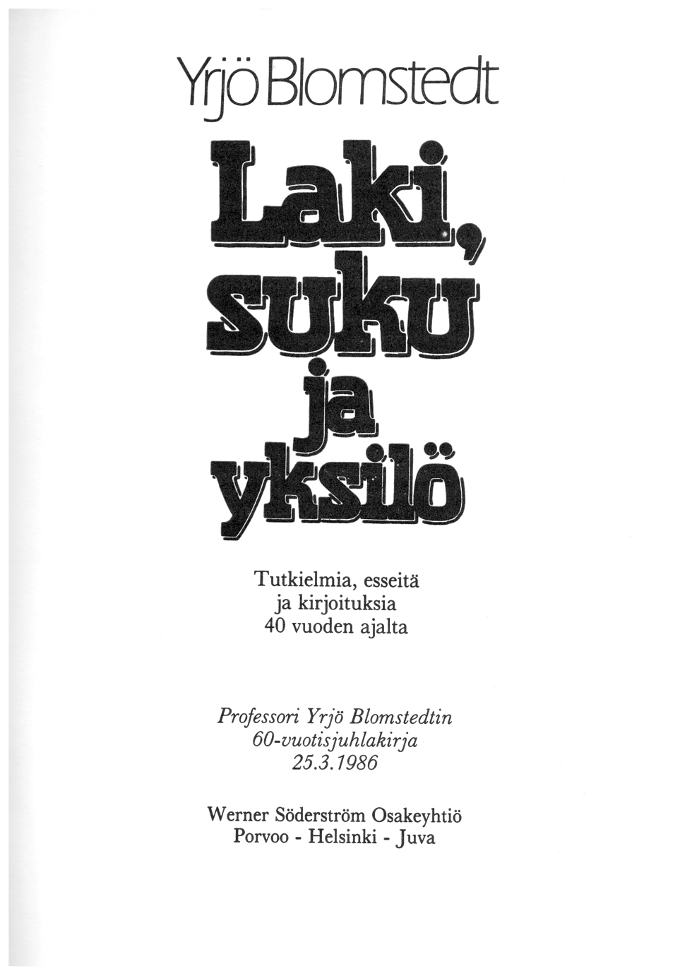 Title page of Laki, suku ja yksilö by Yrjö Blomstedt.